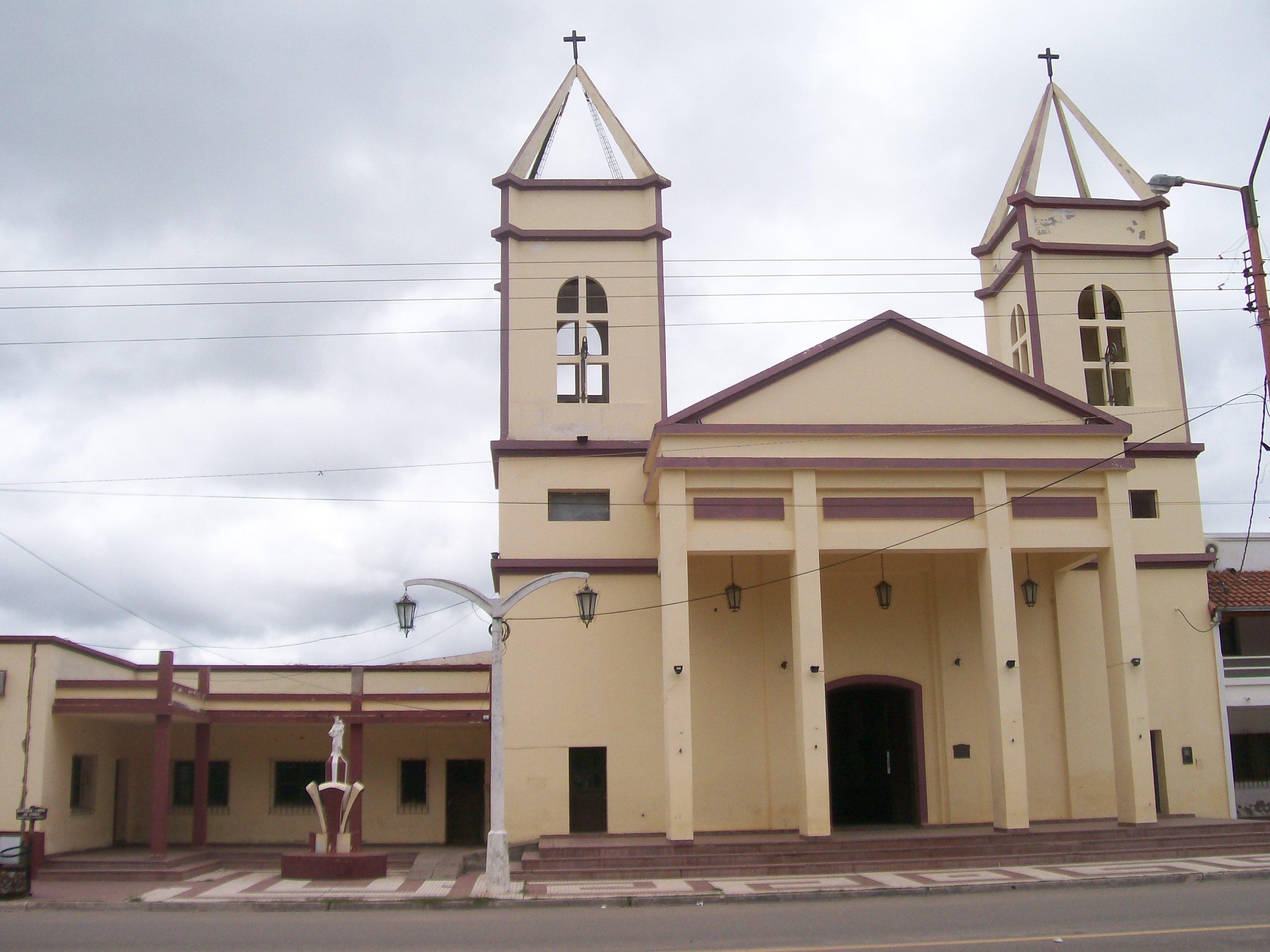 Main catholic church in Joaquín V. González (Salta Province, Argentina). Photo taken from main square.